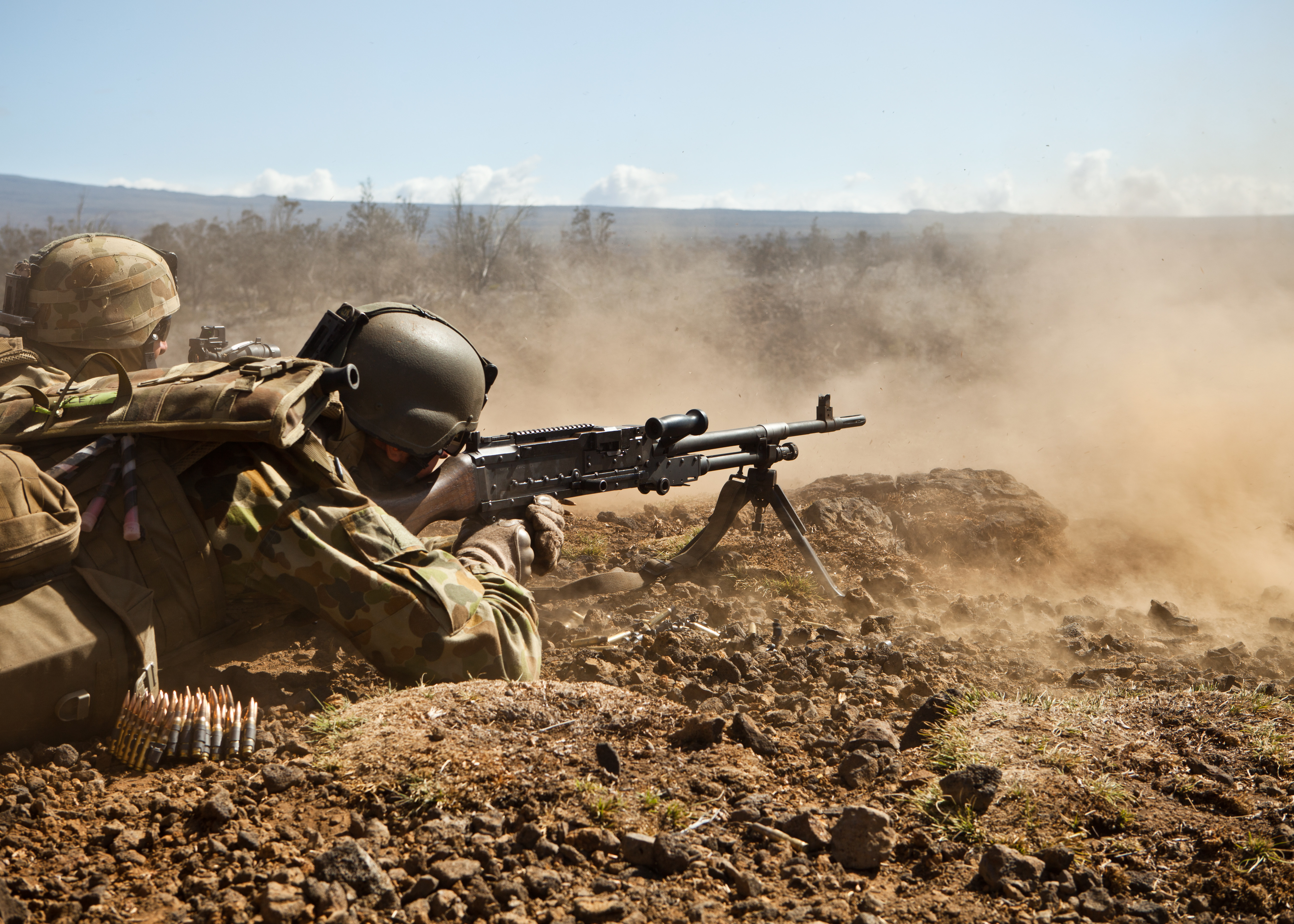 POHAKULOA TRAINING AREA, HI - Australian machine gunners with 1st Battalion, Royal Australian Regiment from Townsville, Queensland, establish a support by fire position during a platoon-size live-fire training range as part of Rim of the Pacific, 2012, July 19.